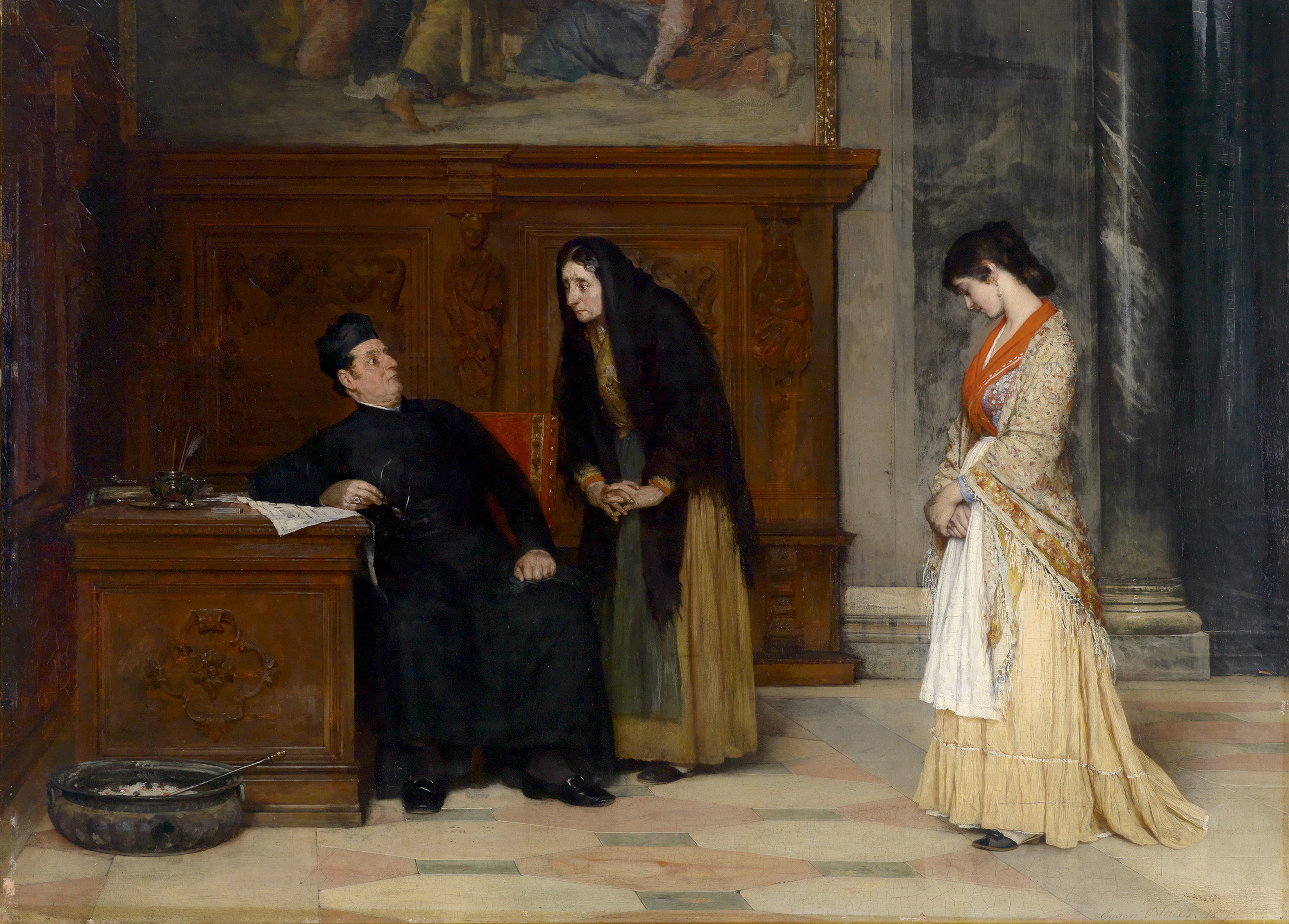 In the Sacristy